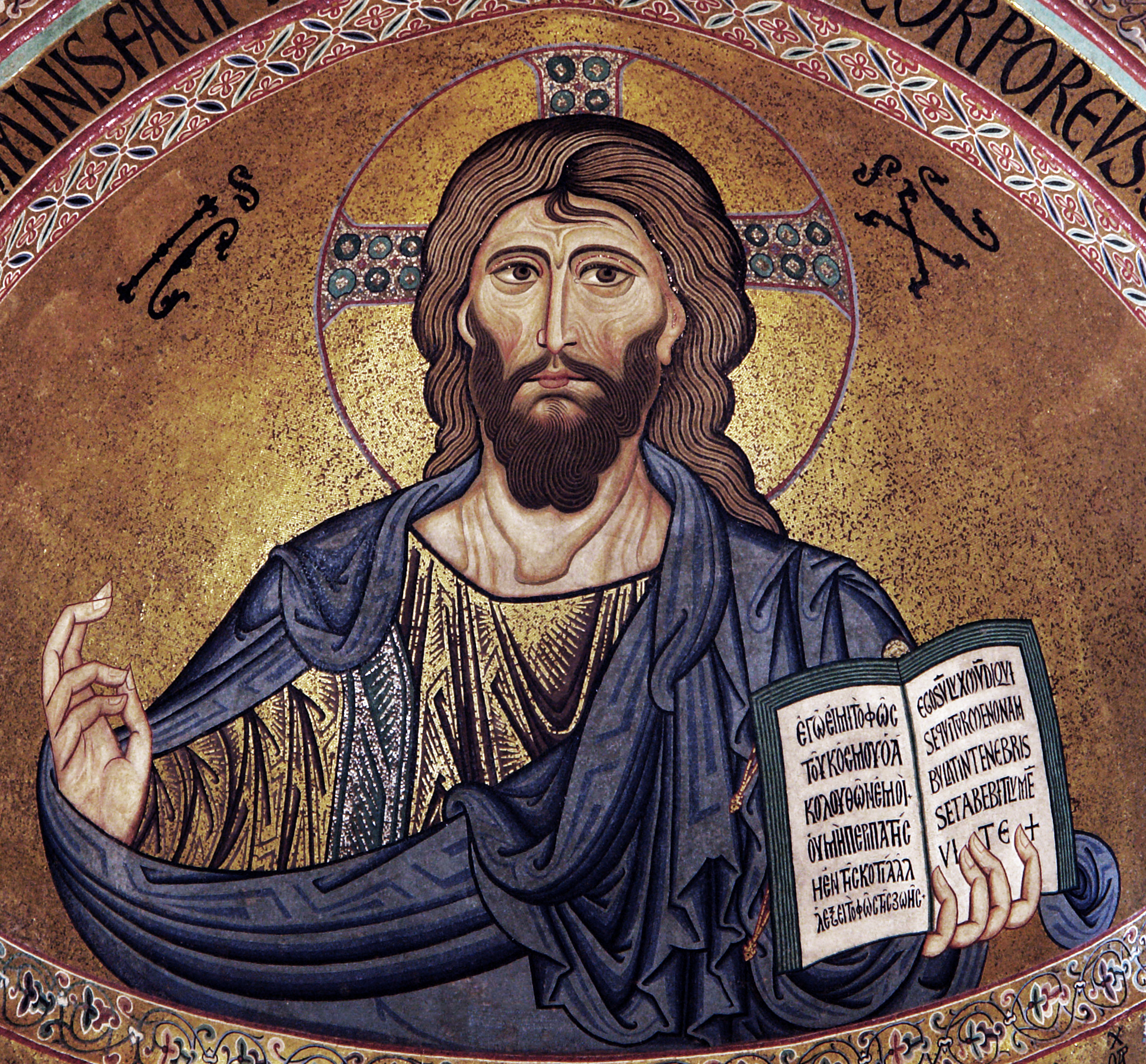 Christus Pantocrator - Artistic representation of Jesus Christ God, the second divine Person of the Most Holy Trinity (Cathedral of Cefalù, c. 1130.)